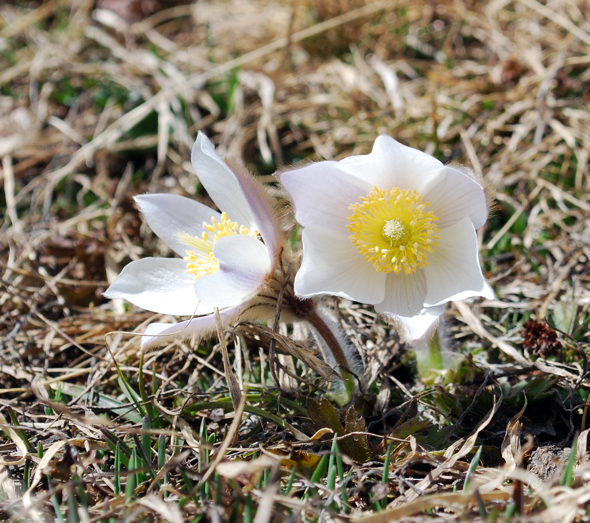 Pulsatilla vernalis, Val di Cedec